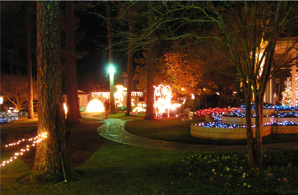 Photograph of the Christmas light display at Guido Gardens, Metter, Georgia